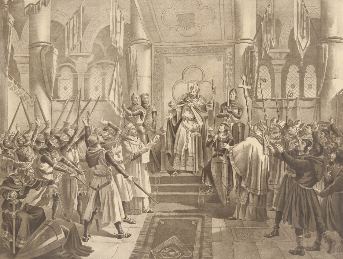 Afonso Henriques is crowned and proclaimed first king of Portugal in the fabled Cortes of Lamego, in the 12th century.